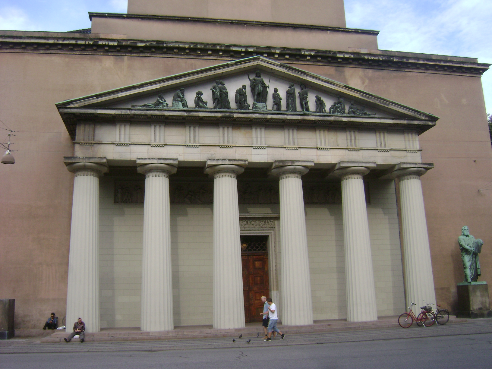 Denmark. Capital Region. Copenhagen